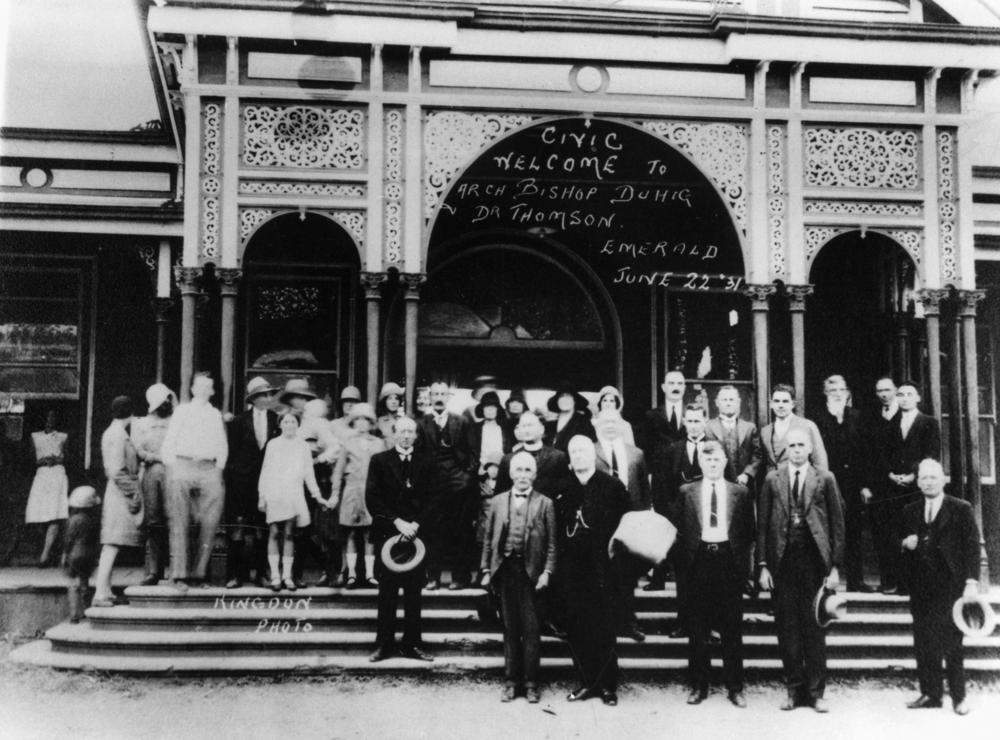 Civic welcome to Archbishop James Duhig and Dr Thomson in Emerald, 1931 The crowd are standing in front of the train station in Emerald.